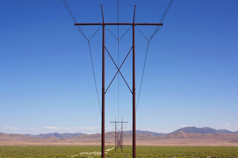 Crescent Valley, Nevada, USA. High-voltage AC transmission towers cross the valley east of State Route 306 (north of Crescent Valley, south of Beowawe) in Eureka County with the Cortez Mountains in the distance (eastward).